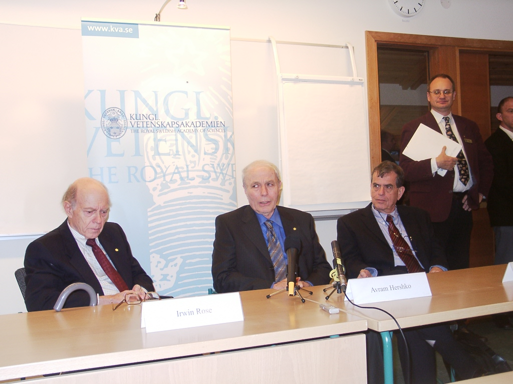 The 3 Nobel Laureates in Chemistry for 2004. Left to right: Irwin Rose, Avram Hershko and Aaron Ciehanover.